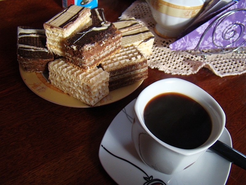 Pischinger (chocolate oblaten cake)